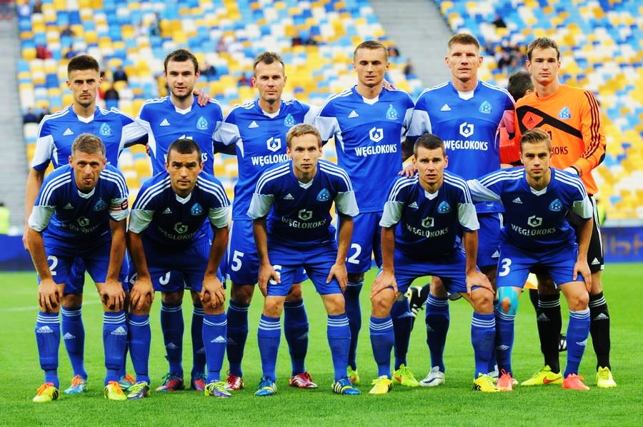 Ruch Chorzów